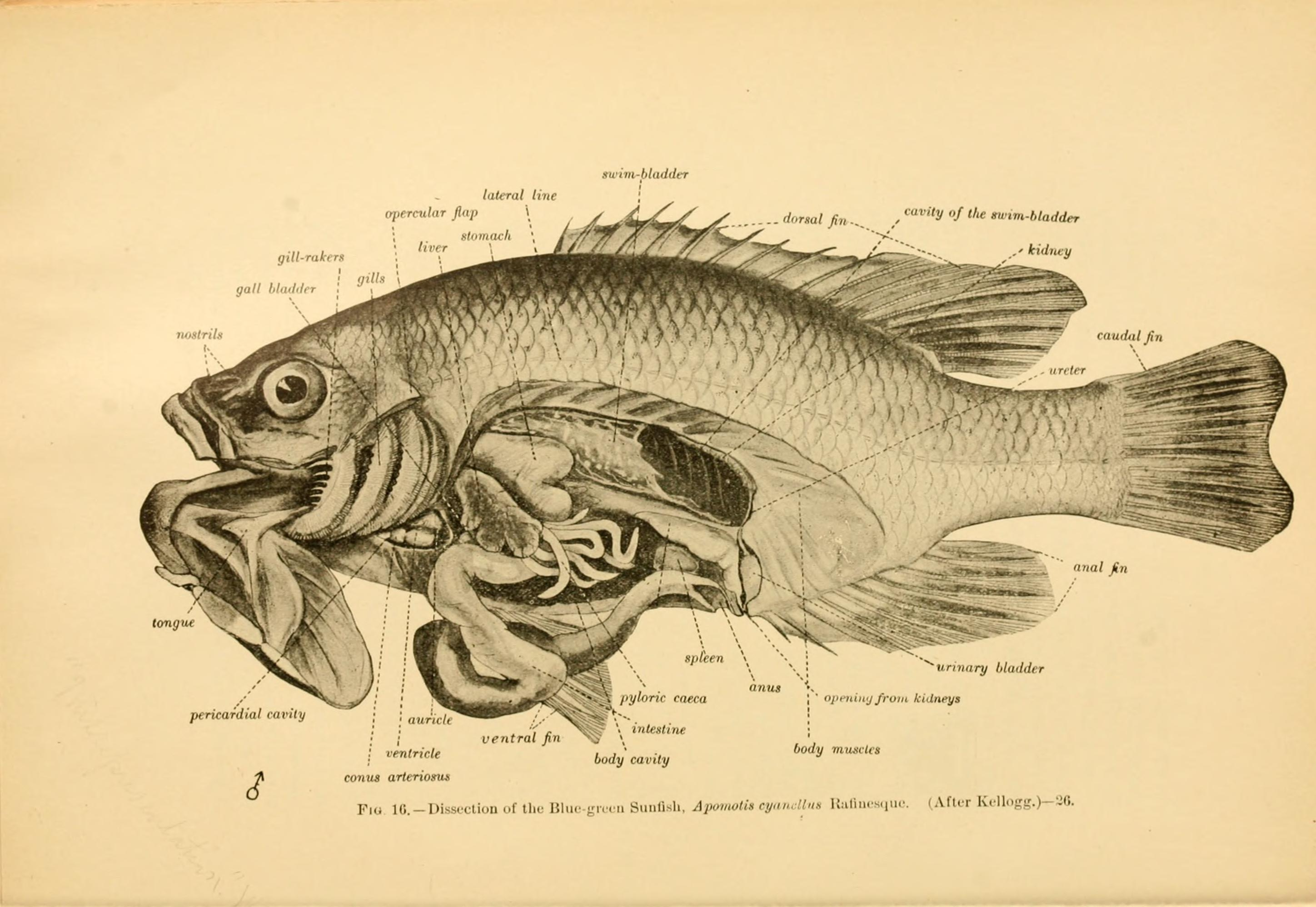 Dissection of the blue-green sunfish (Apomotis cyanellus) (=Lepomis cyanellus) Title: Fishes Year: 1907 (1900s) Authors: Jordan, David Starr, 1851-1931 Subjects: Fishes Publisher: New York, H. Holt and Company Text Appearing Before Image: ■I to to \ifM» I i -I Text Appearing After Image: The Dissection of the Fish 27 Next it flows into the thick-walled ventricle, whence by therhythmical construction of its walls it is forced into an arterialbulb which lies at the base of the ventral aorta, which carriesit on to the gills. After passing through the fine gill-filaments,it is returned to the dorsal aorta, a large blood-vessel which ex-tends along the lower surface of the back-bone, giving out branchesfrom time to time. The kidneys in fishes constitute an irregular mass under theback-bone posteriorly. They discharge their secretions throughthe ureter to a small urinary bladder, and thence into the uro-genital sinus, a small opening behind the anus. Into the samesinus are discharged the reproductive cells in both sexes. In the female sunfish the ovaries consist of two granularmasses of yellowish tissue lying just below and behind the swim-bladder. In the spring they fill much of the body cavity andthe many little eggs can be plainly seen. When mature theyare discharged thr